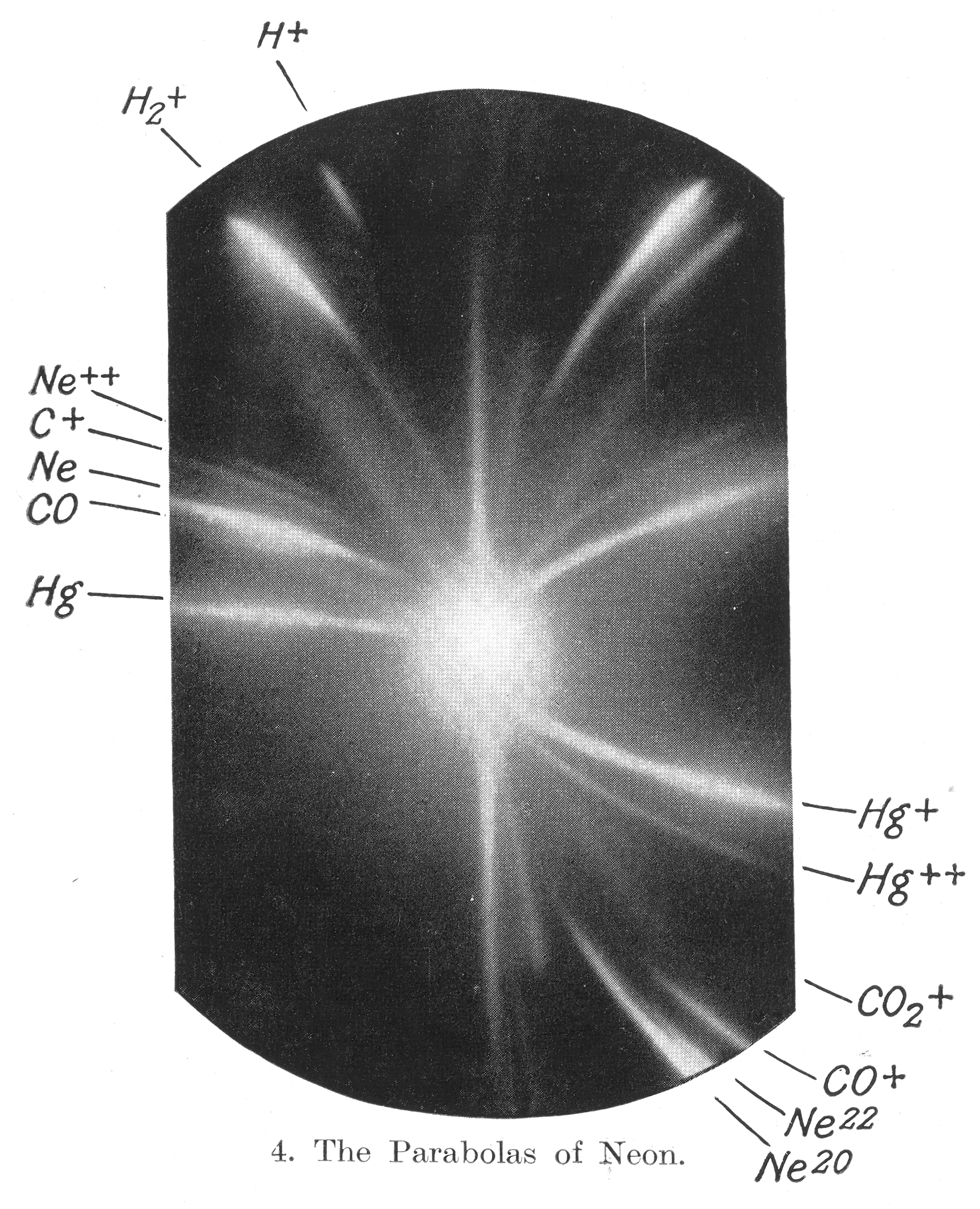 In the lower right corner of the photographic plate are the tracks left by two isotopes of neon: neon-20 and neon-22.